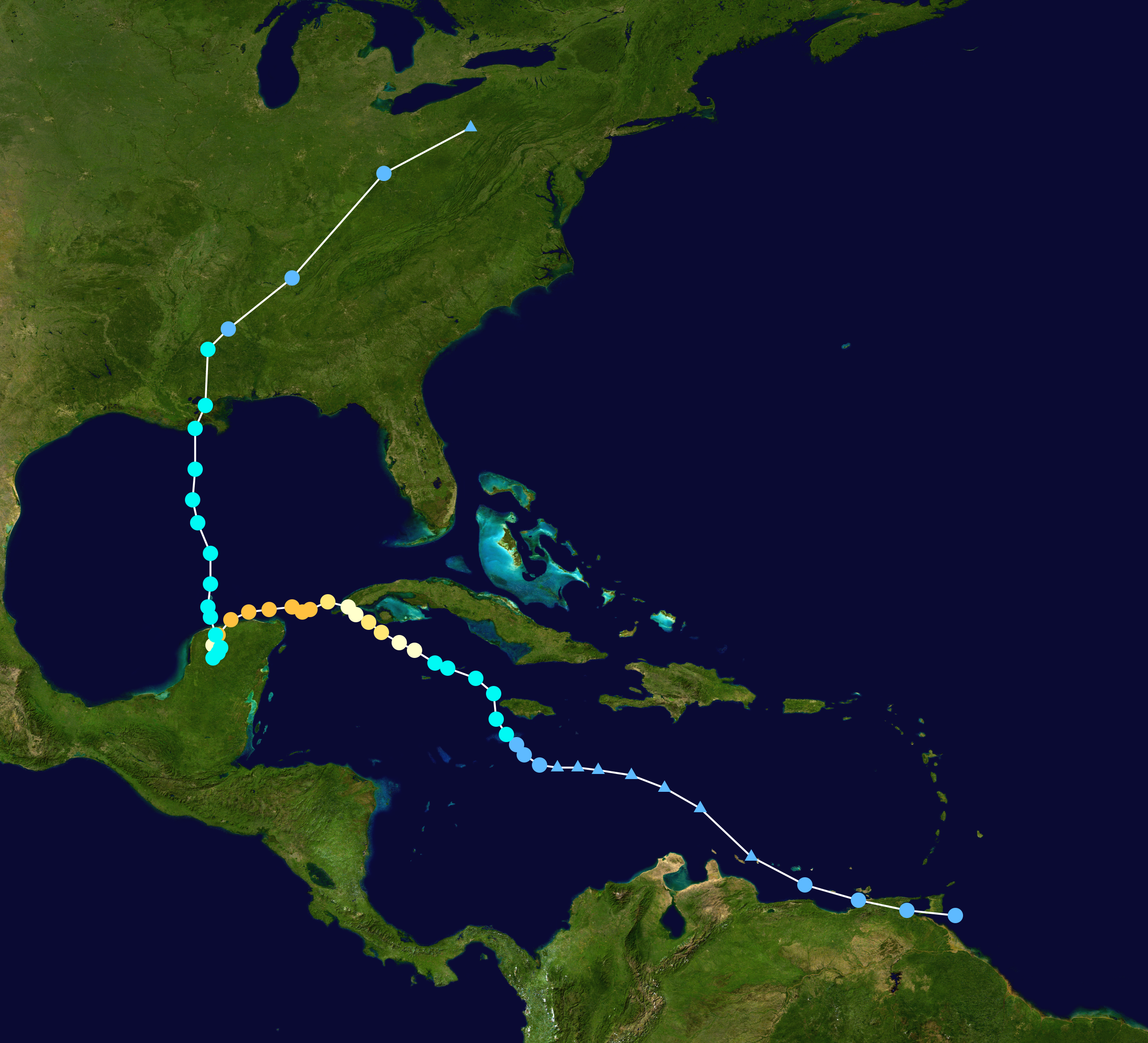 Track map of Hurricane Isidore of the 2002 Atlantic hurricane season. The points show the location of the storm at 6-hour intervals. The colour represents the storm's maximum sustained wind speeds as classified in the Saffir–Simpson scale (see below), and the shape of the data points represent the nature of the storm, according to the legend below. Saffir–Simpson scale Tropical depression≤38 mph≤62 km/h Category 3111–129 mph178–208 km/h Tropical storm39–73 mph63–118 km/h Category 4130–156 mph209–251 km/h Category 174–95 mph119–153 km/h Category 5≥157 mph≥252 km/h Category 296–110 mph154–177 km/h Unknown Storm type Tropical cyclone Subtropical cyclone Extratropical cyclone / Remnant low / Tropical disturbance / Monsoon depression